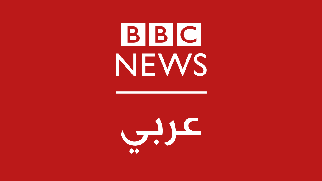 BBC Arabic logo